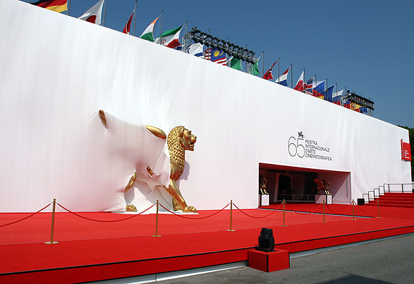 The 65th Venice International Film Festival, organised by the Venice Biennale, ran 27th August to 6th September (2008).